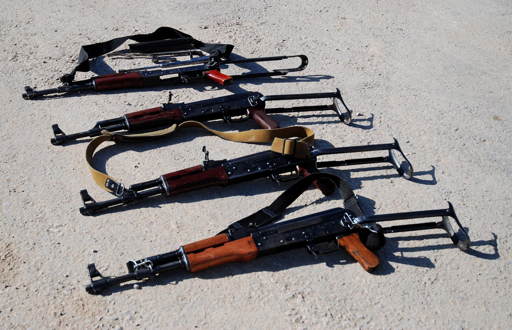 January 19, 2008 IDF forces operated against militants on a Friday night in northern Gaza. During the battle in the neighborhood of Jabalya, 4 militants of the Hamas terrorist organization shot at IDF forces. The militants, who were armed with AK-47s and grenades, surrendered and were taken into custody by IDF forces. Pictured here: The captured weaponry.